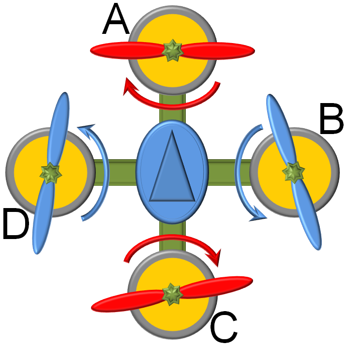 Scheme of quadrocopter impellent (+ configuration)